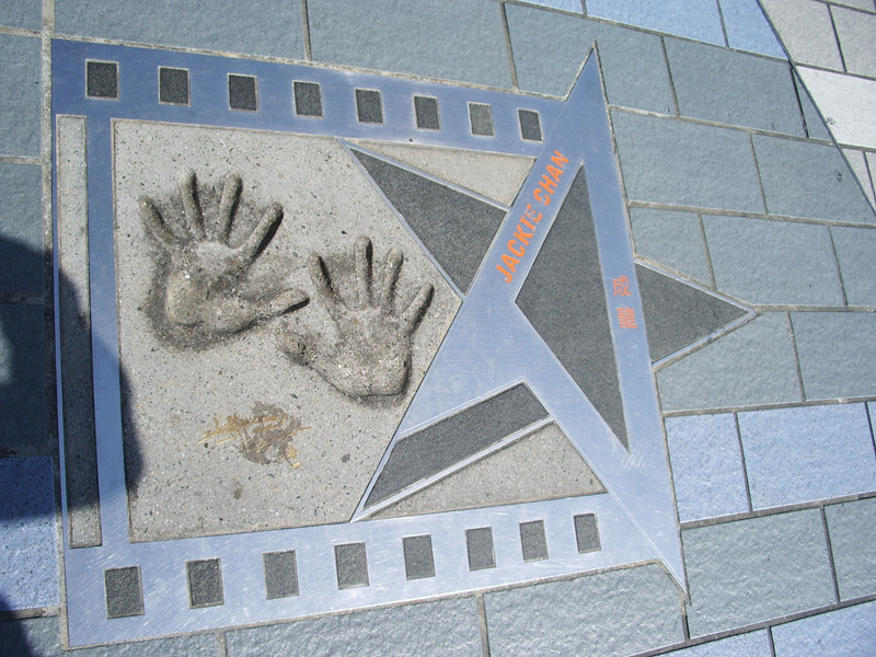 Just like the Grauman Chinese Theatre in Hollywood immortalizes handprints of movie stars on the pavement, the Avenue of the Stars does the same. The stars are honored by their native names written in Chinese characters and Roman alphabet, with a Westernized name added if they are well known by that as well. Of course, this is the most popular set of handprints, as evidenced by all the stains from previous visitors putting their hands into the prints. (And yes, his hands are huge - my own hands looked like baby hands in them.) Who else could it be, but the one and only Jackie Chan (成龍)?